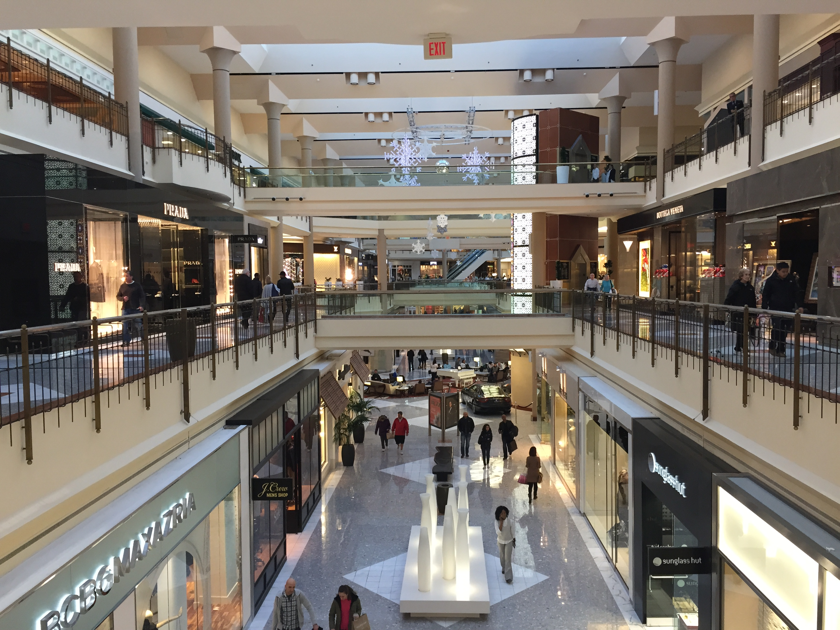 Interior of the Tysons Galleria in Tysons Corner, Fairfax County, Virginia